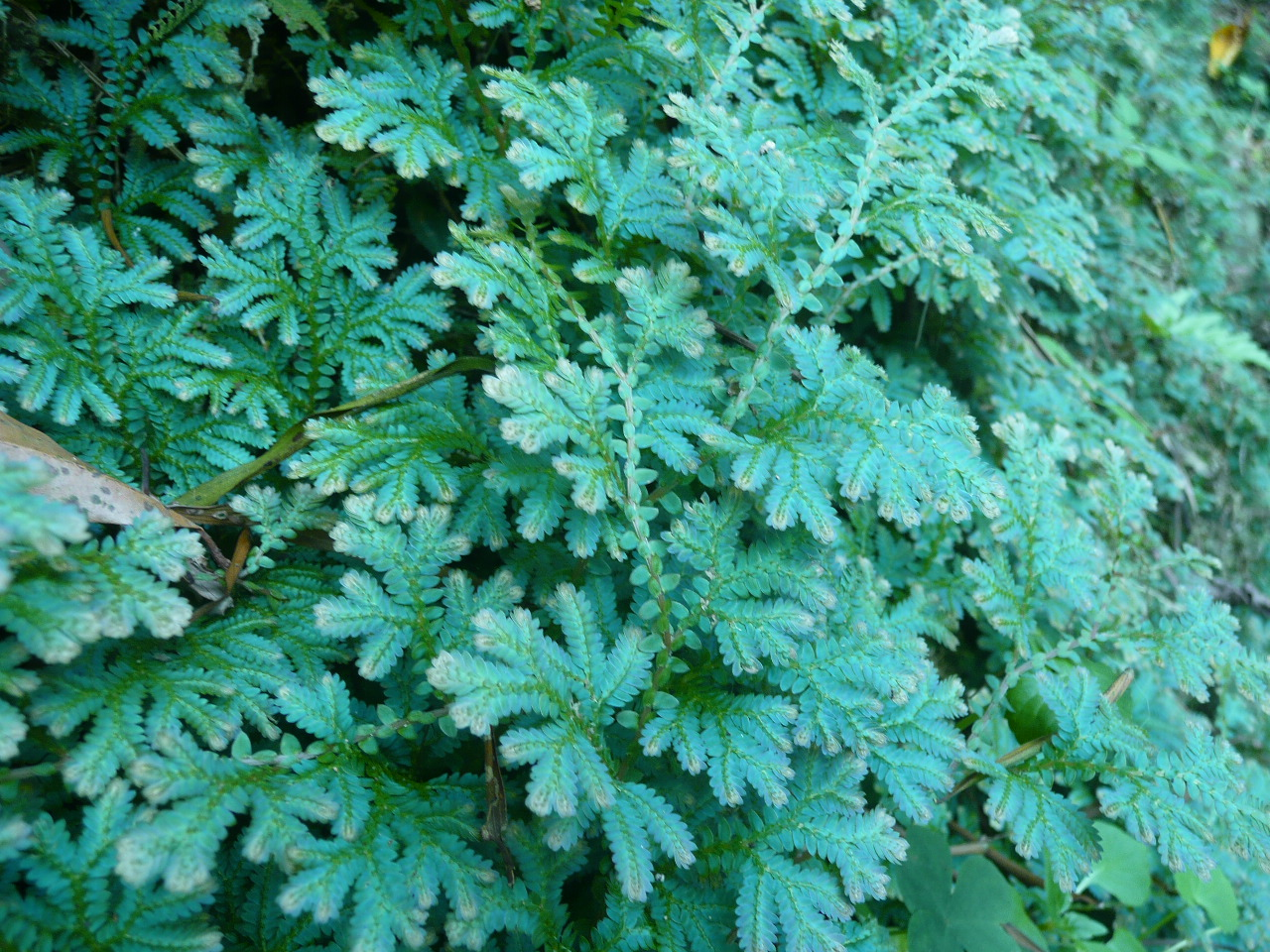 Blue spikemoss or Peacock Spikemoss (China)